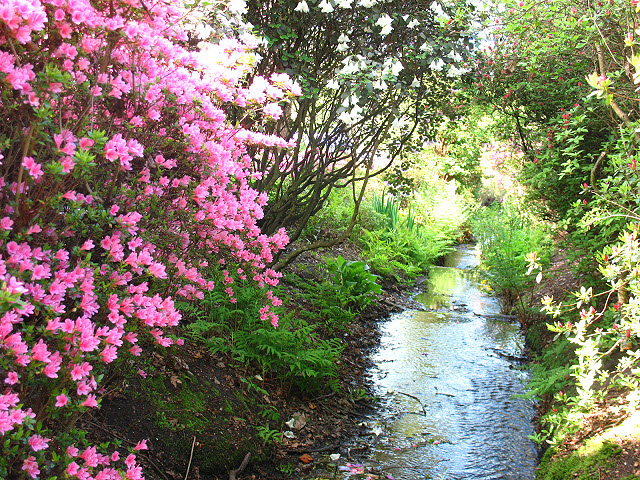 Stream in Isabella Plantation A fern-lined stream flows through the garden in Richmond Park.